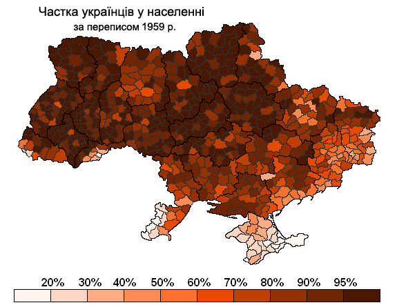 Share of ethnic ukrainians, 1959 Soviet census